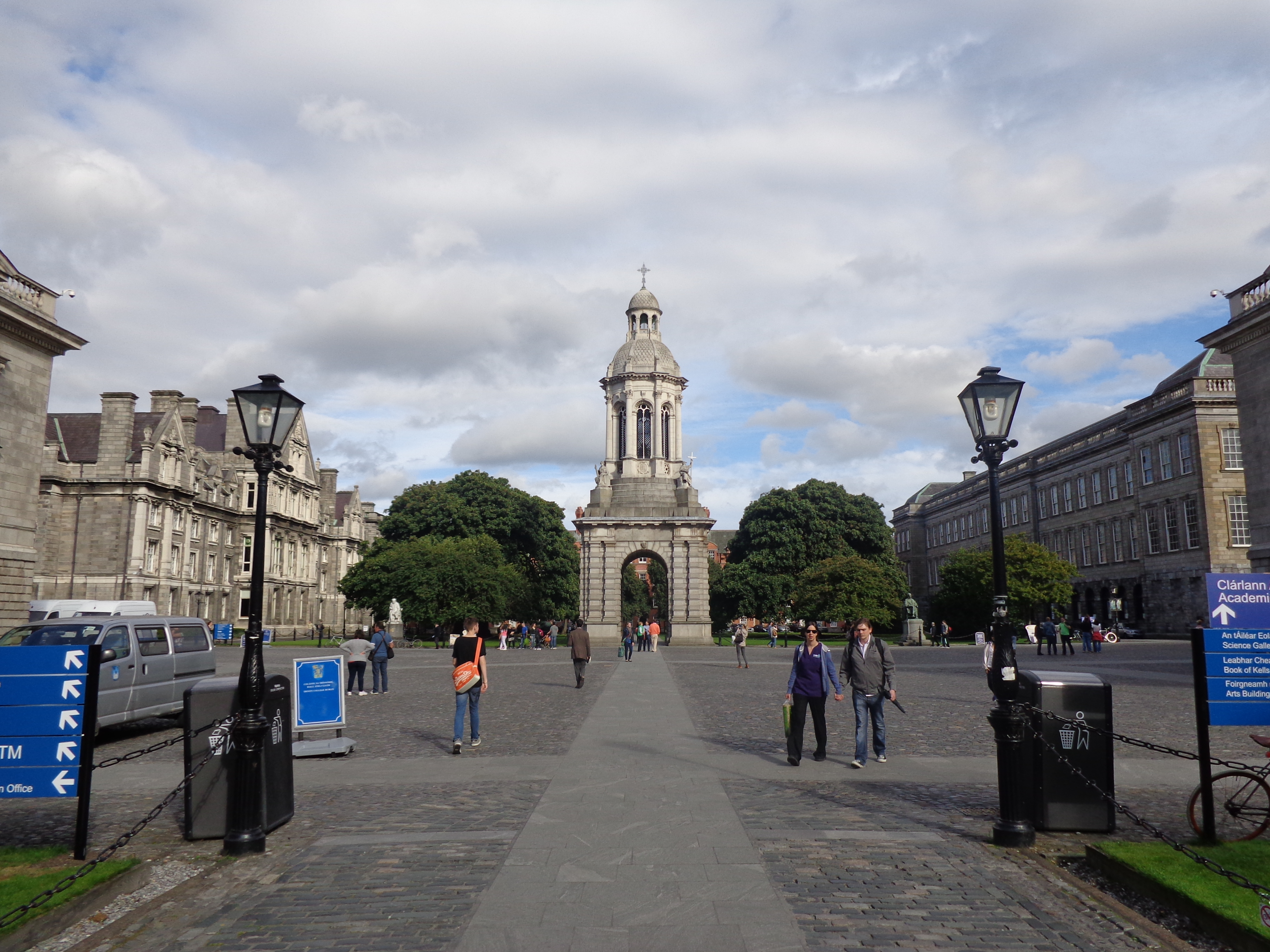 Trinity College, Dublin